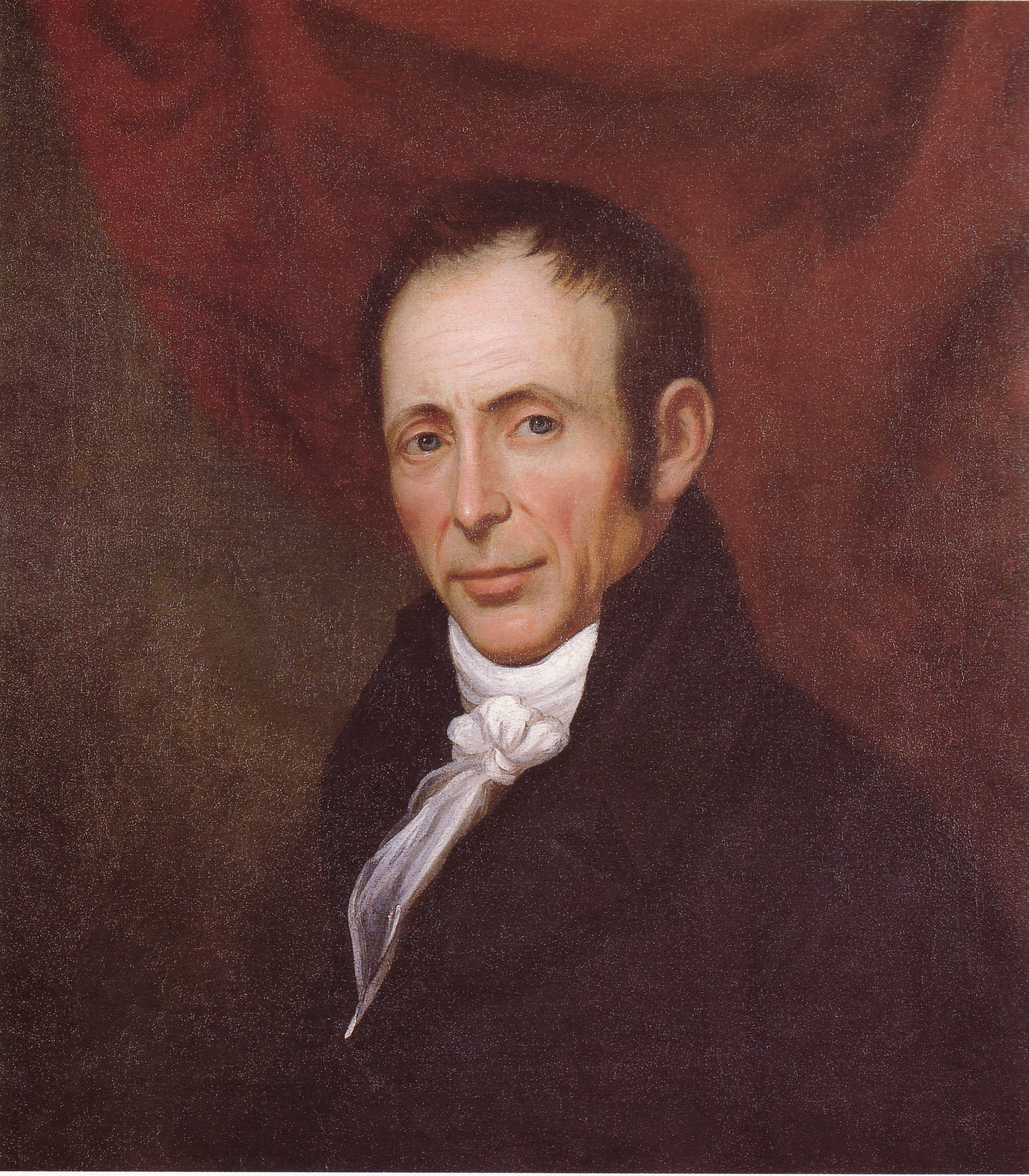 Painting Self-Portrait by Charles Peale Polk